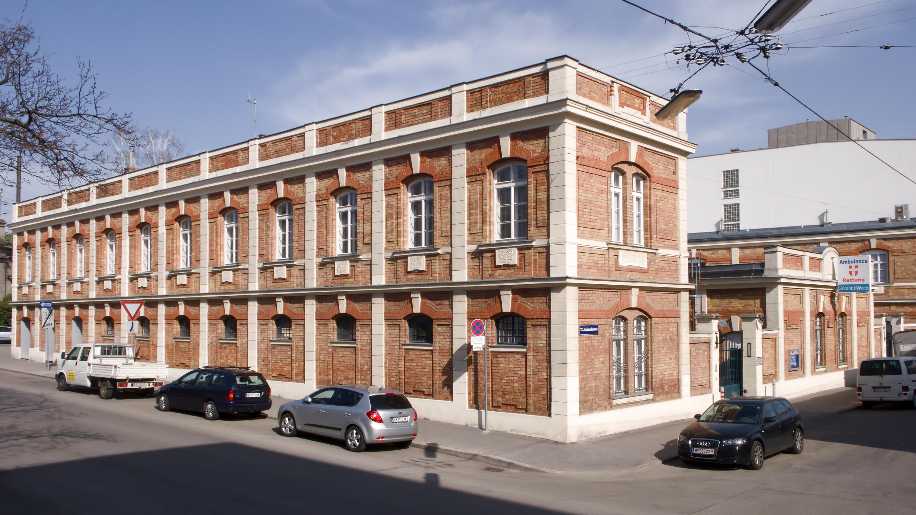 Rettungsstation Hernals in Vienna Hernals